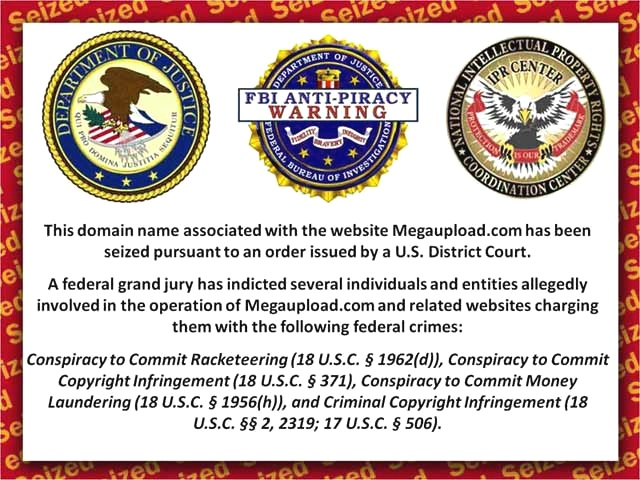 website “Megaupload” with FBI's banner